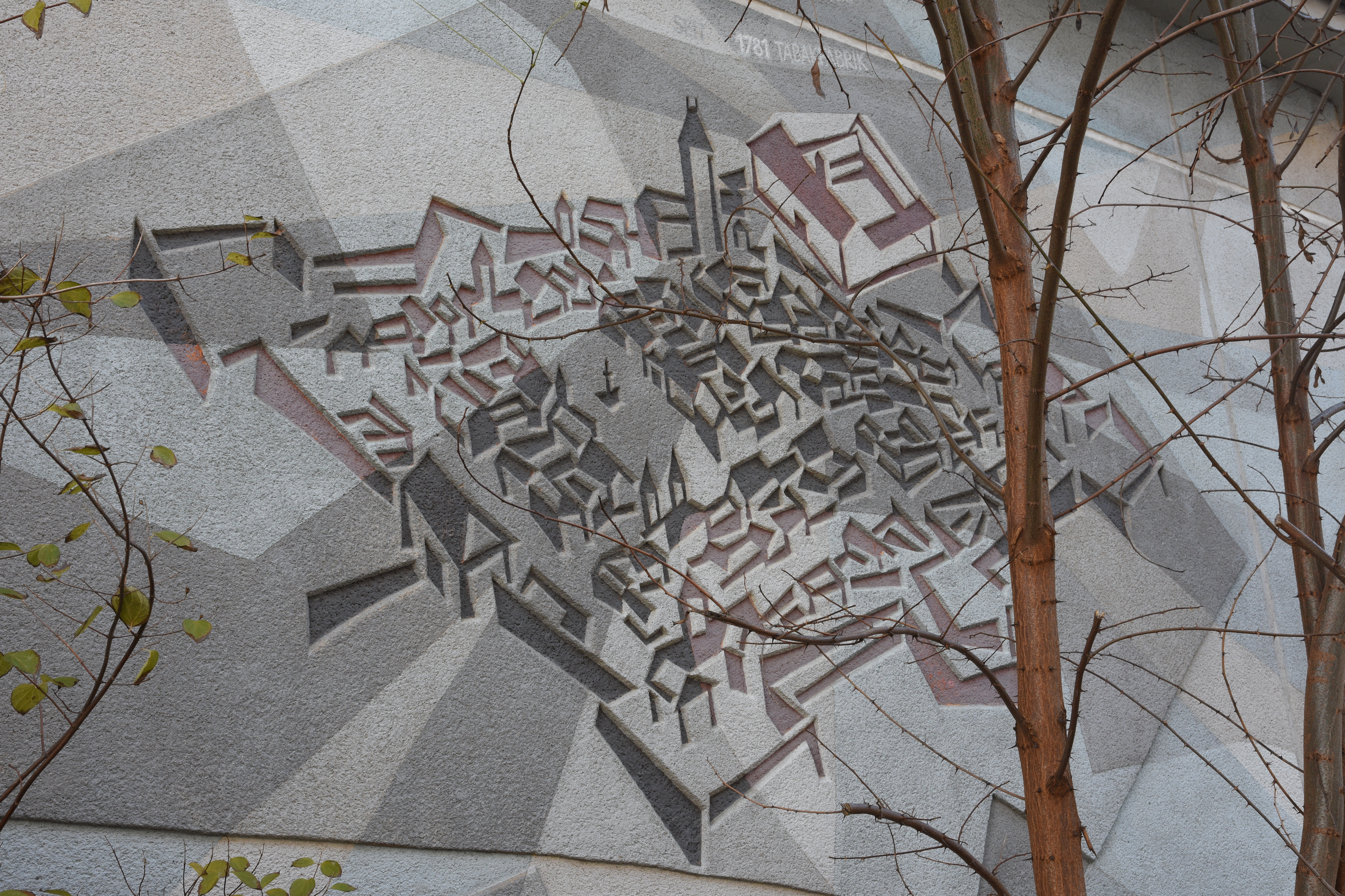 Austria Tabak Fortifications of_Fürstenfeld Tabakfabrik 1781 Schloss am Stein Kirchner 1958